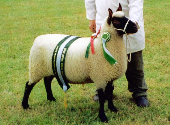 2003 Champion at the Royal Agricultural Show